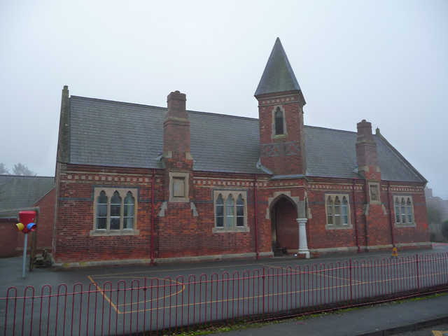 Marston Thorold's Charity Church of England Primary School